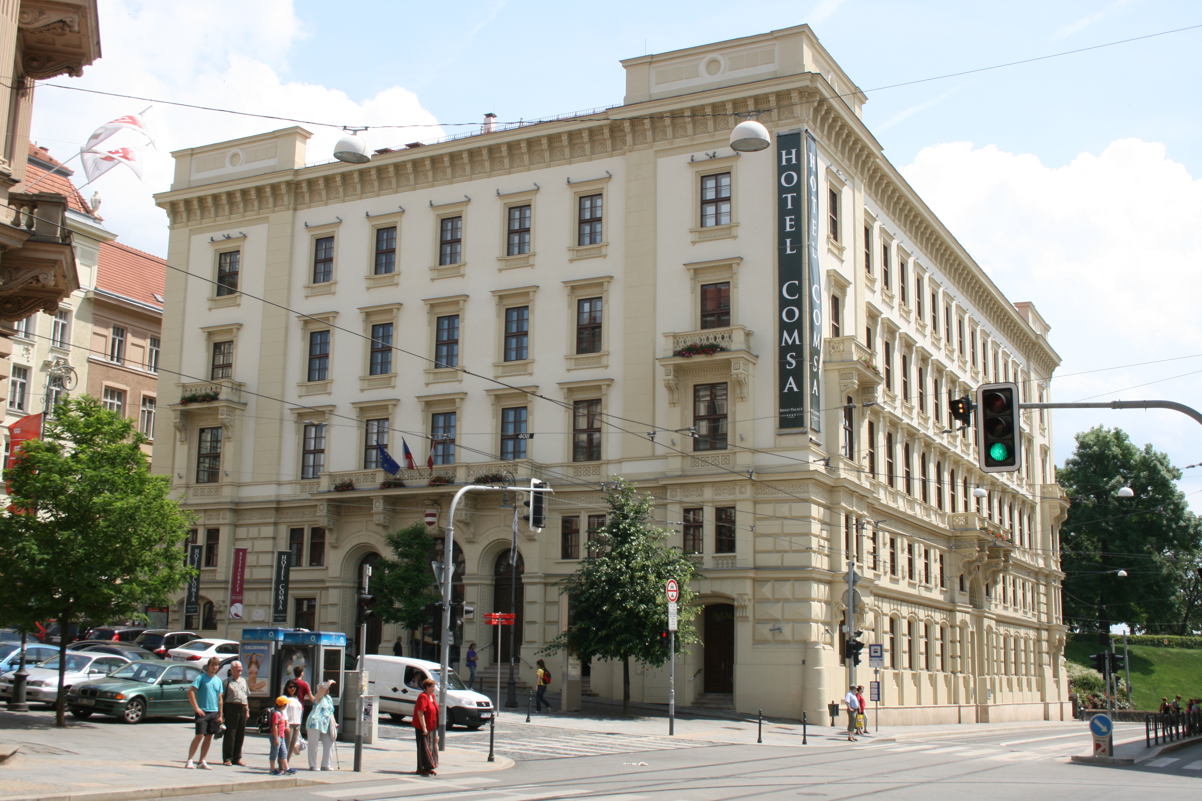 Comsa Brno Palace Hotel at Šilingrovo square in Brno, Czech Republic.